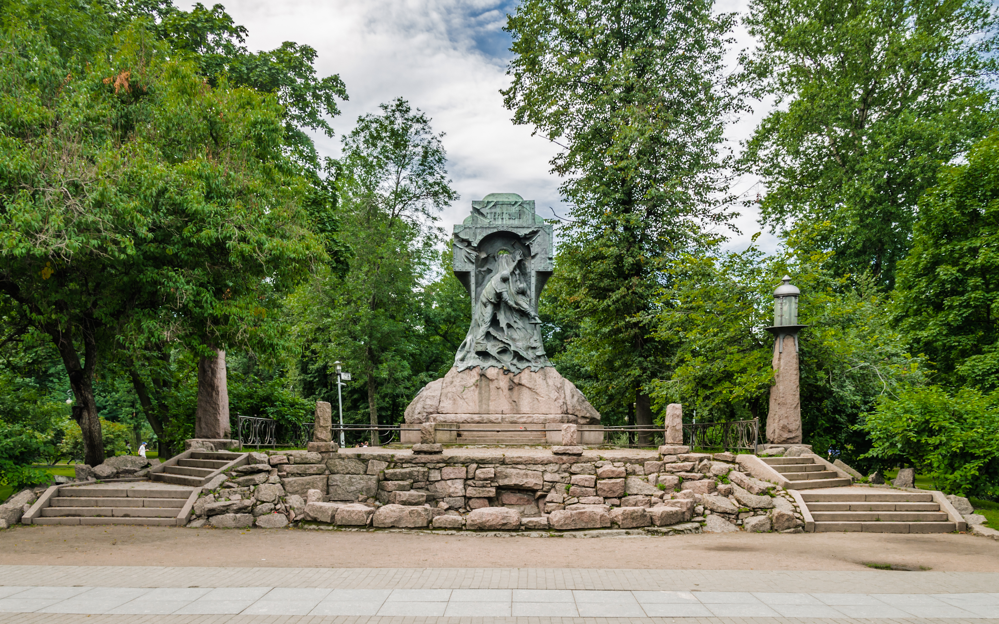 Monument to torpedo boat "Stereguschiy" (by Alexander von Hohen, 1911) in Sain Petersburg